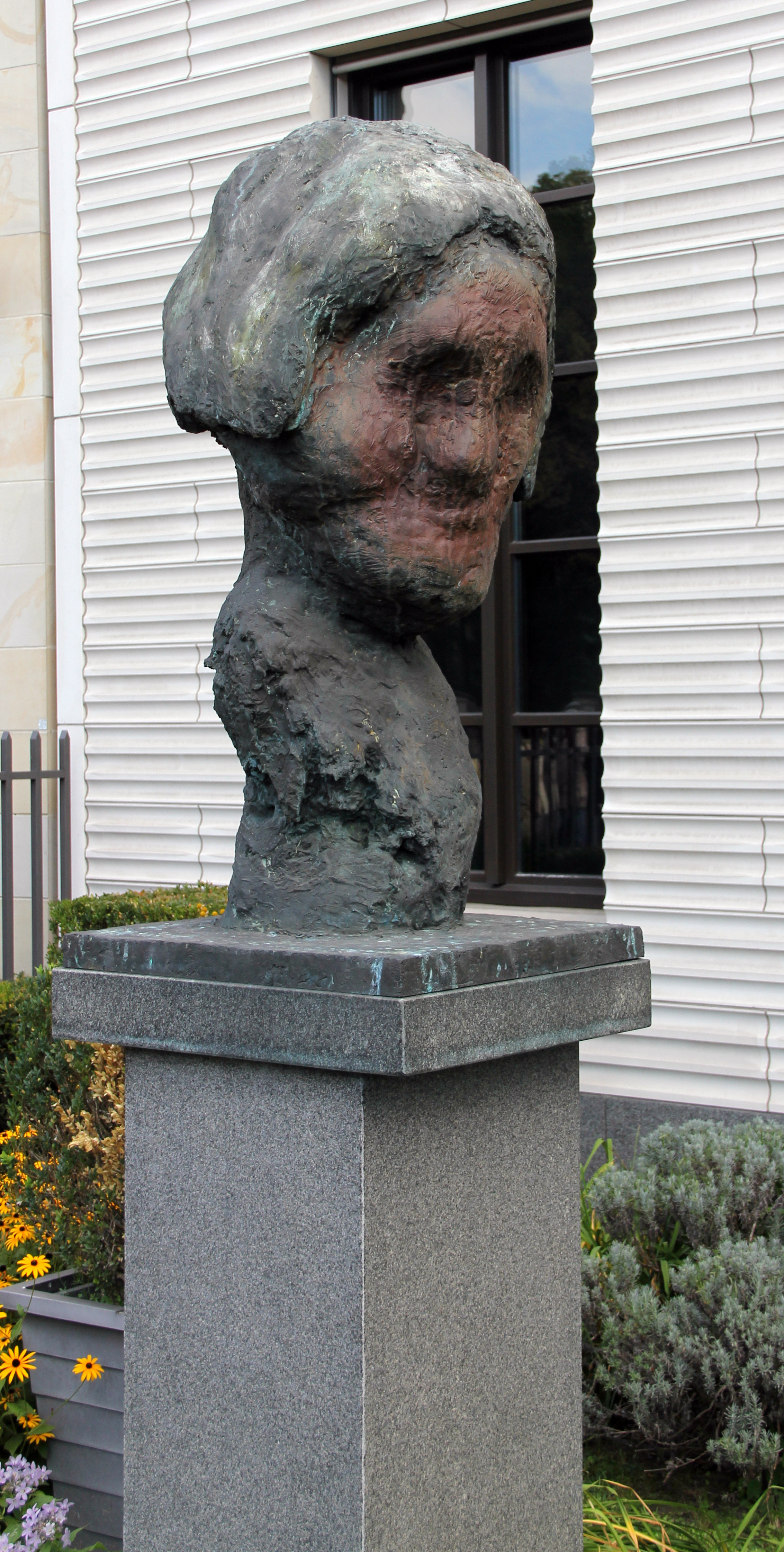 Bust, "Hommage á Liebermann" by Markus Lüpertz, 1997, Ebertstraße 23, Berlin-Mitte, Germany